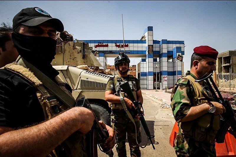 Liberation of Fallujah by Iraqi Armed Forces and The People's Mobilization (Shi'a militias)